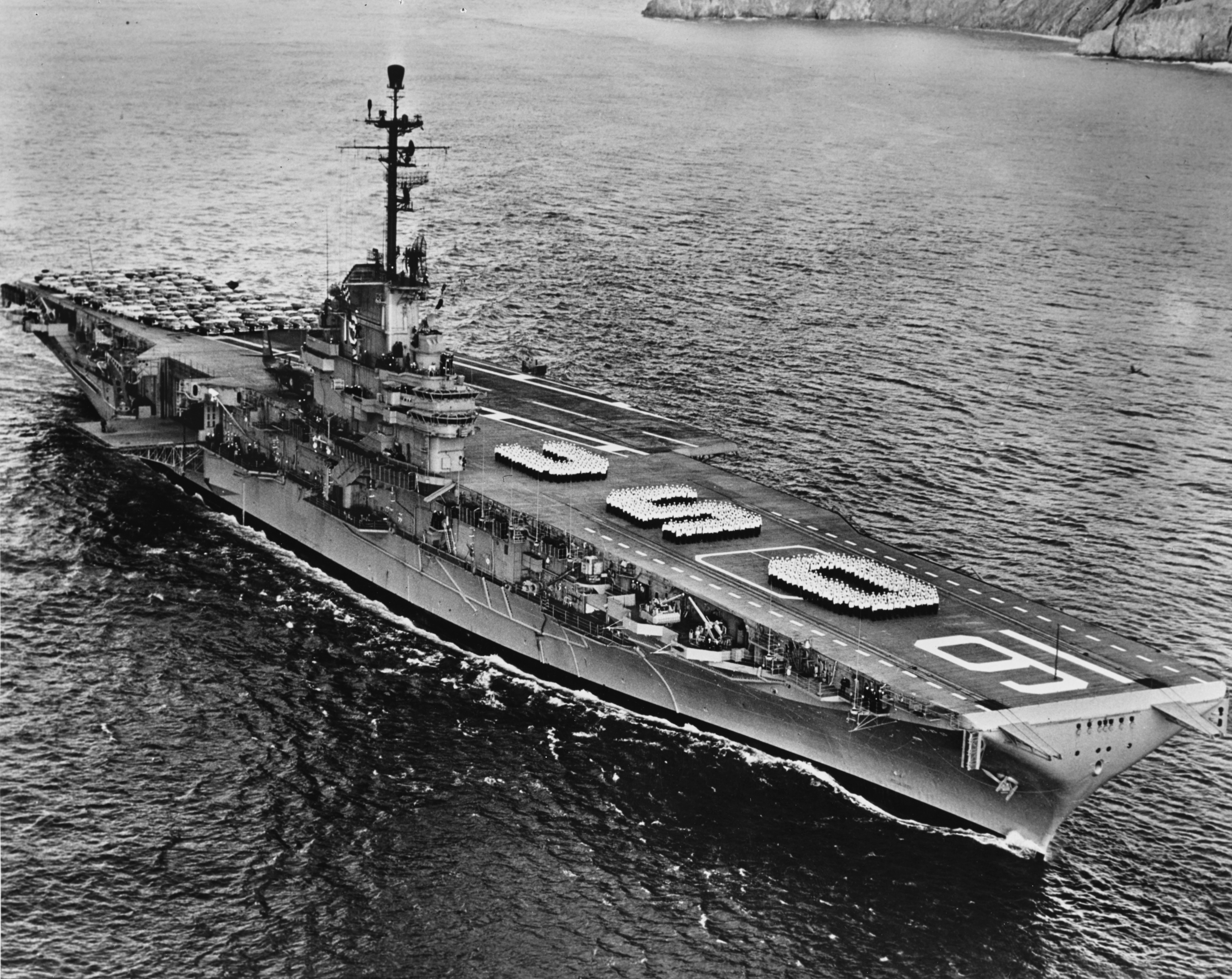 The U.S. Navy aircraft carrier USS Lexington (CVA-16) arriving in San Francisco Bay, California (USA), circa early 1958, after a four and one-half month overhaul at Puget Sound Naval Shipyard, Bremerton, Washington (USA). The "Lady Lex" has the letters "USO" spelled out on her flight deck by members of her crew, in observance of the United Services Organization fundraising drive then being conducted. Note the automobiles parked aft, and a wingless Grumman UF Albatross behind the island.